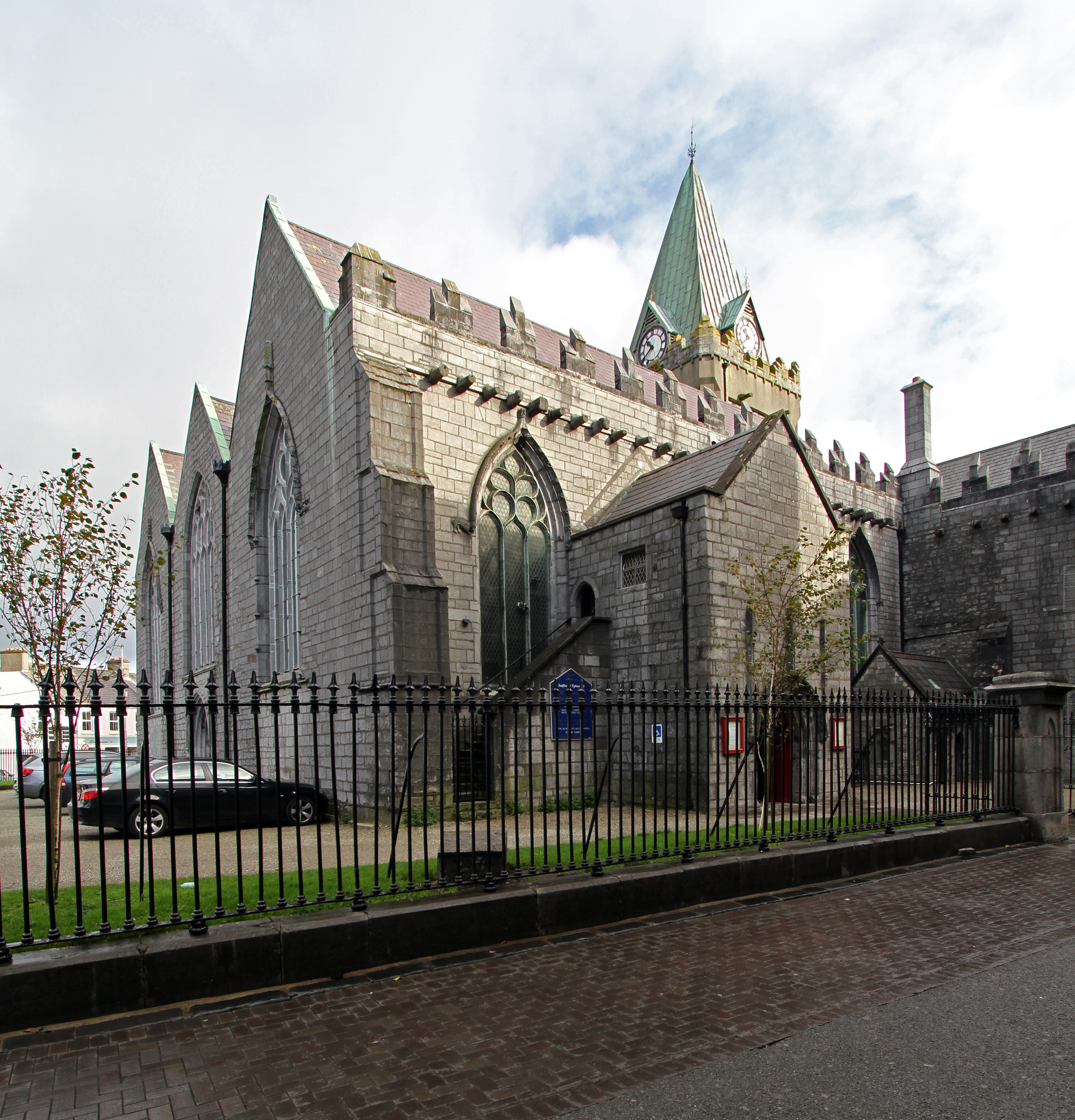 St. Nicholas' Collegiate Church (Galway).